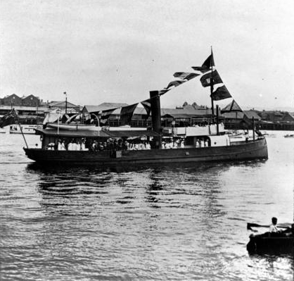 Miner (ship), formerly of the Queensland Maritime Defence Force, in November 1922.